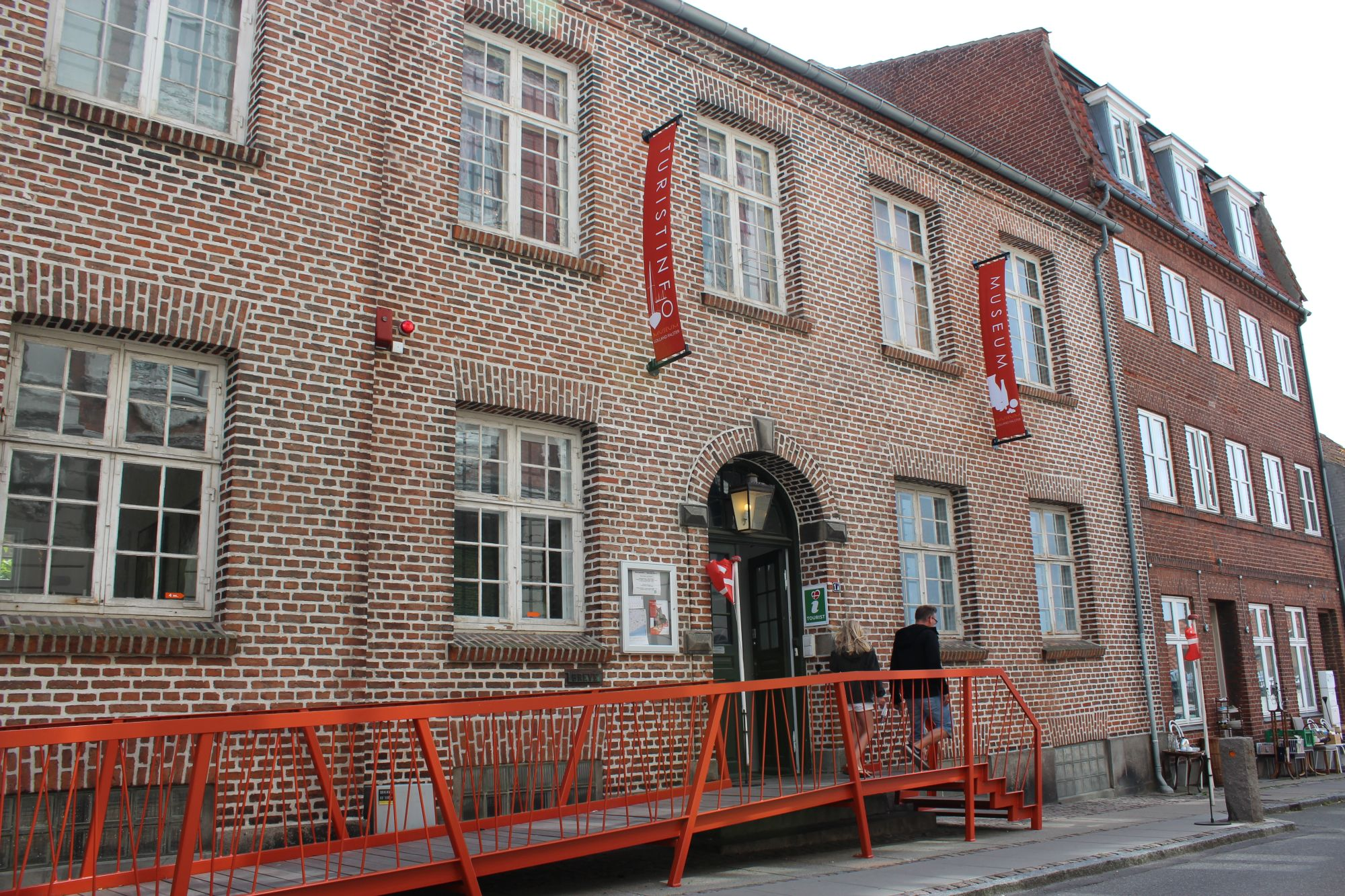 Entrance to Den gamle købmandshandel (The old grocery store) and tourist information in Nykøbing Falster, Denmark.